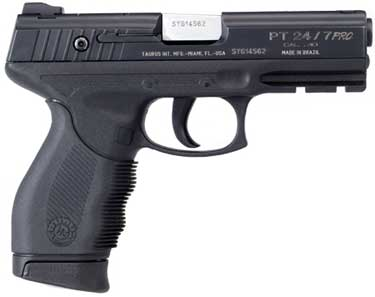 Gun of Brazilian Manufacturer Taurus